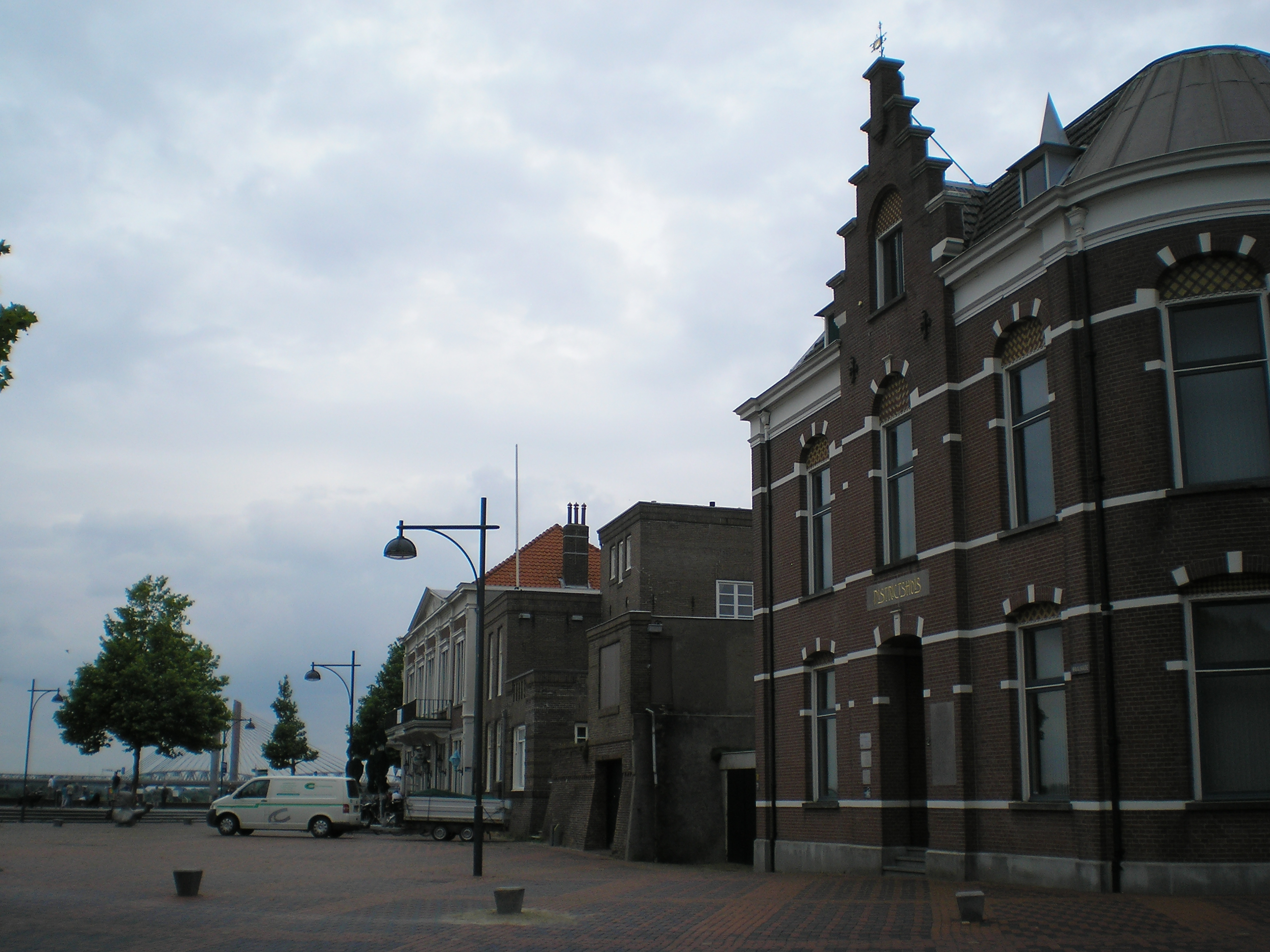 Society "De Verdraagzaamheid" on the Waalkade in Zaltbommel in the Netherlands